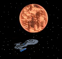 A artistic representation of a starship, similar to the ones in star trek, passing a desert moon. I modified the planet extensively, but used the shape and colors as a reference because it is hard to make lots of different colors for a planet with Microsoft paint because it only allows ten colors at a time Note: I created the starship picture entirely by myself without the use of a scanner/camera or such. It is 100% my work. (And took quite a while)